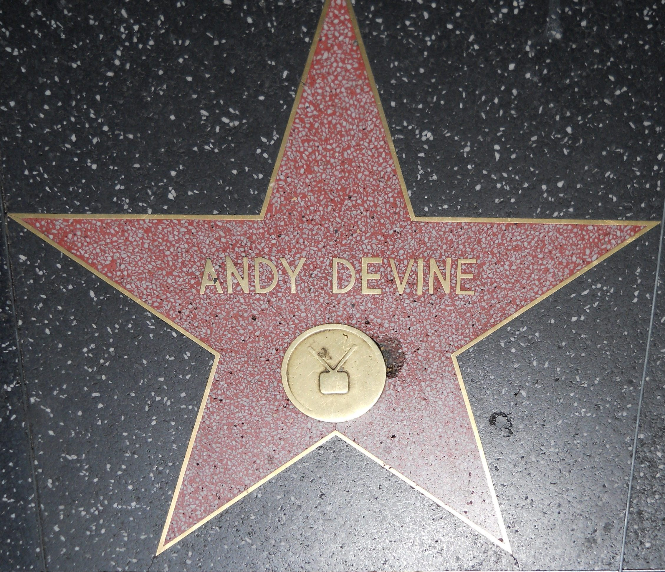 Charactor actor Andy Devine's star on the Hollywood Walk of Fame.